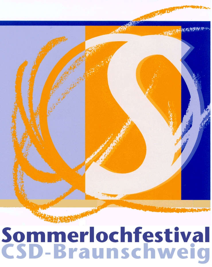 Logo - Sommerlochfestival | CSD Braunschweig